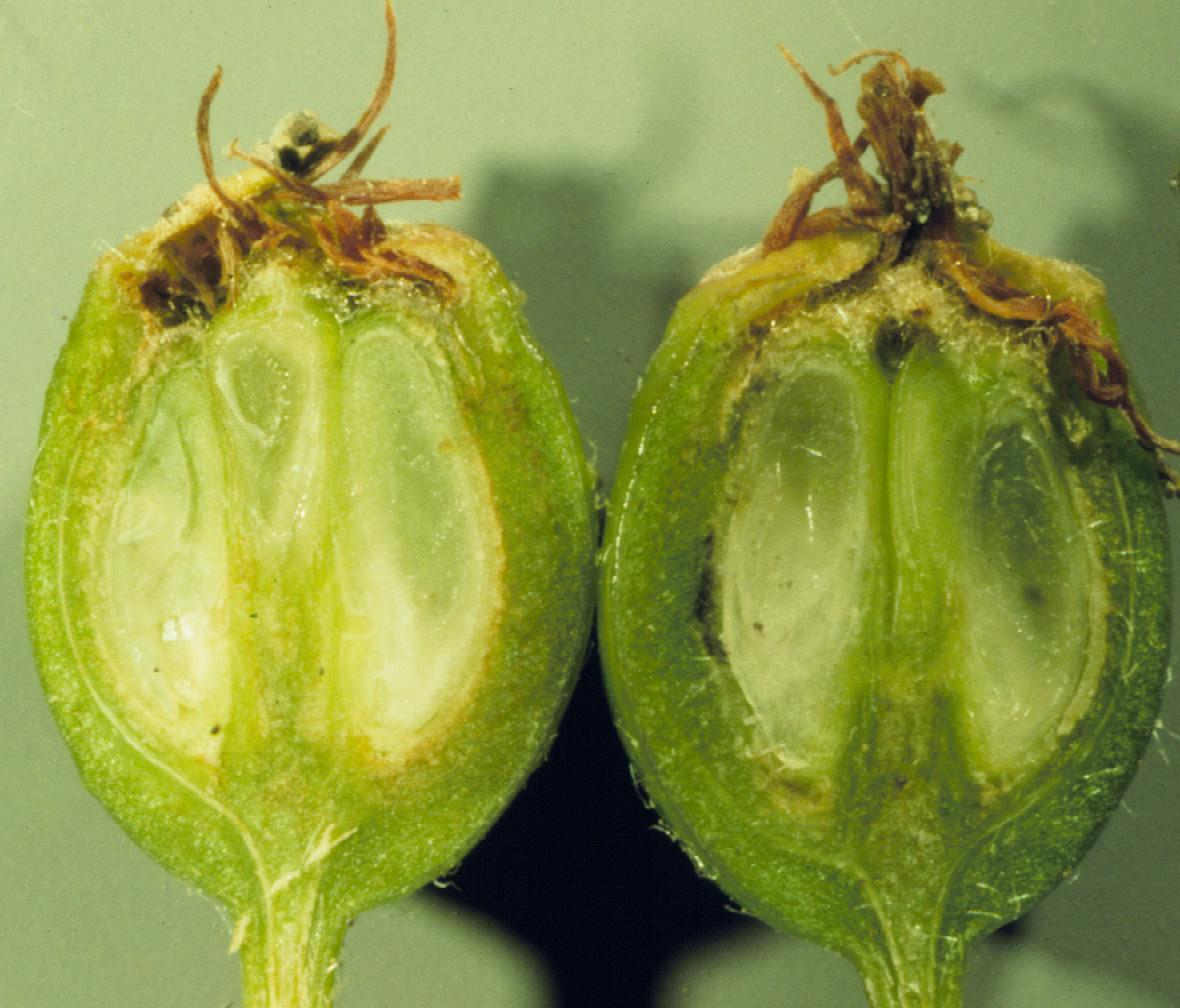 Cross section of the nearly-mature Sorbus pome.